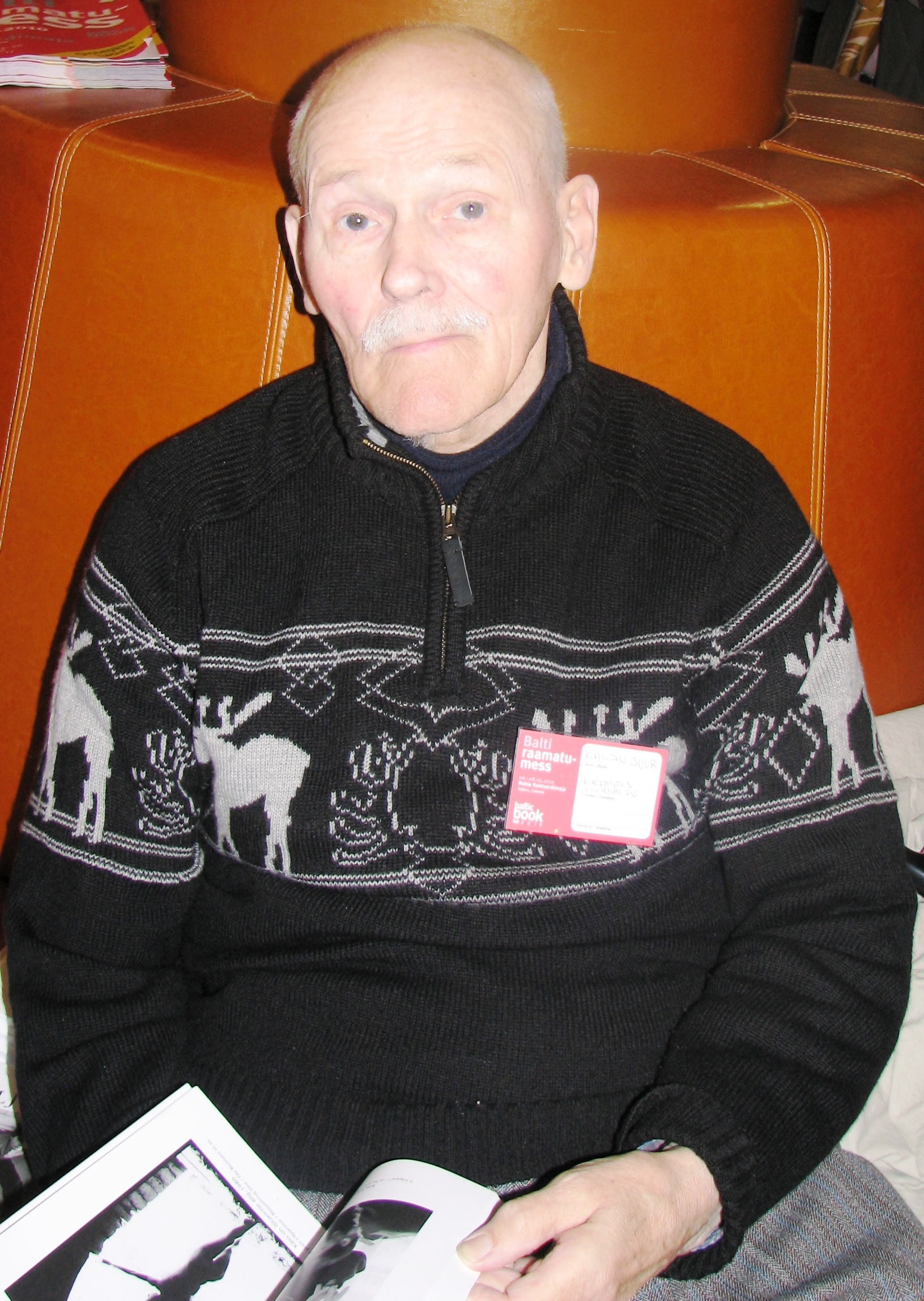 Kalju Suur in the Baltic Book Fair.